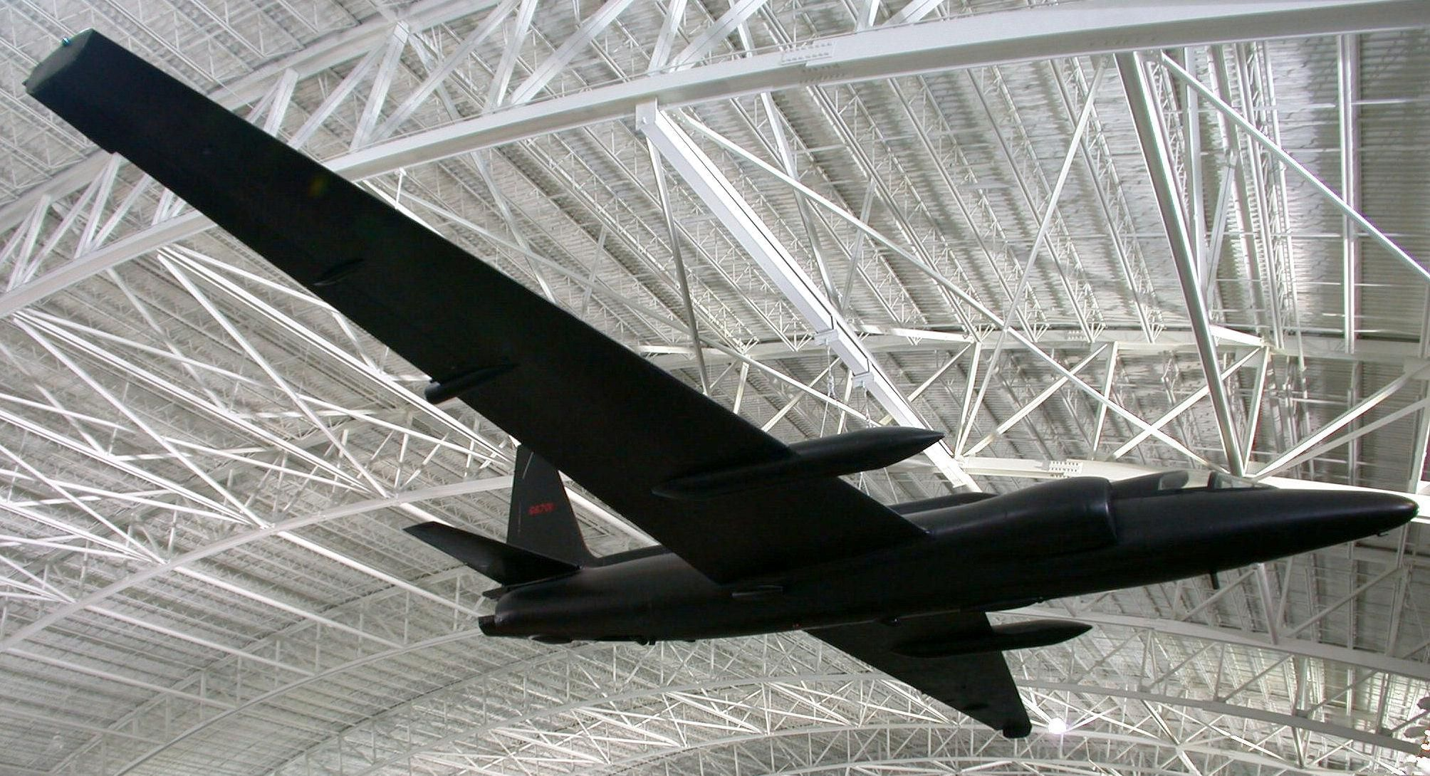 Image title: Lockheed u 2c aircraft Image from Public domain images website